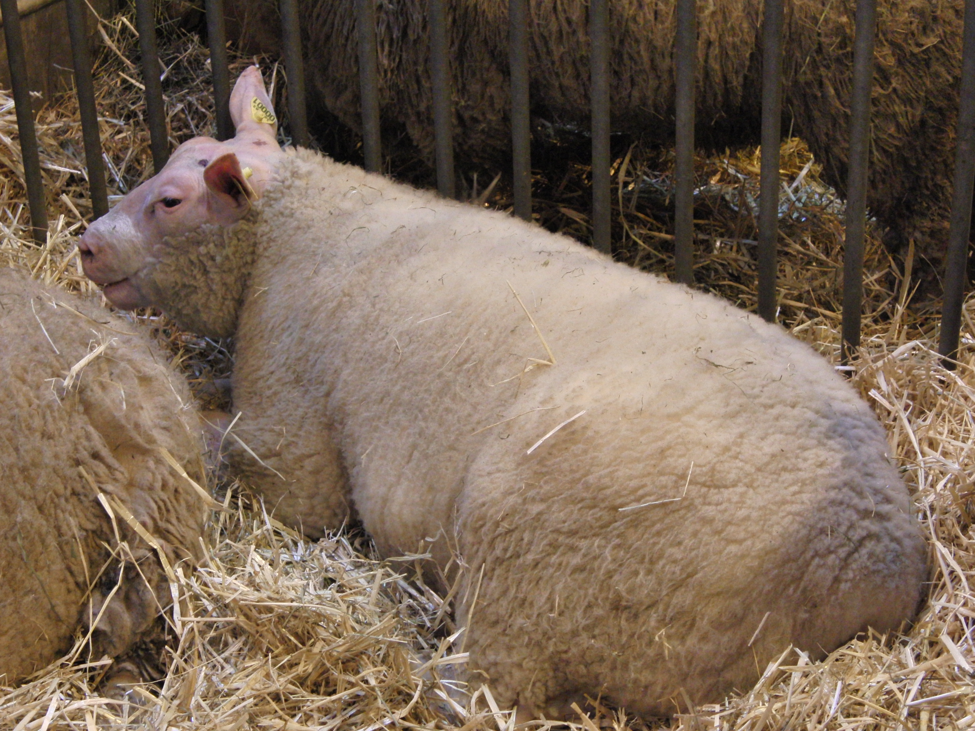 Cotentin sheep - Salon international de l'agriculture 2011, Paris, France